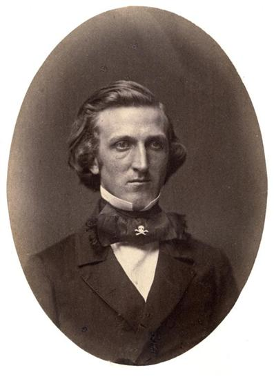 Chauncey Depew, from Yale College Class of 1856 album